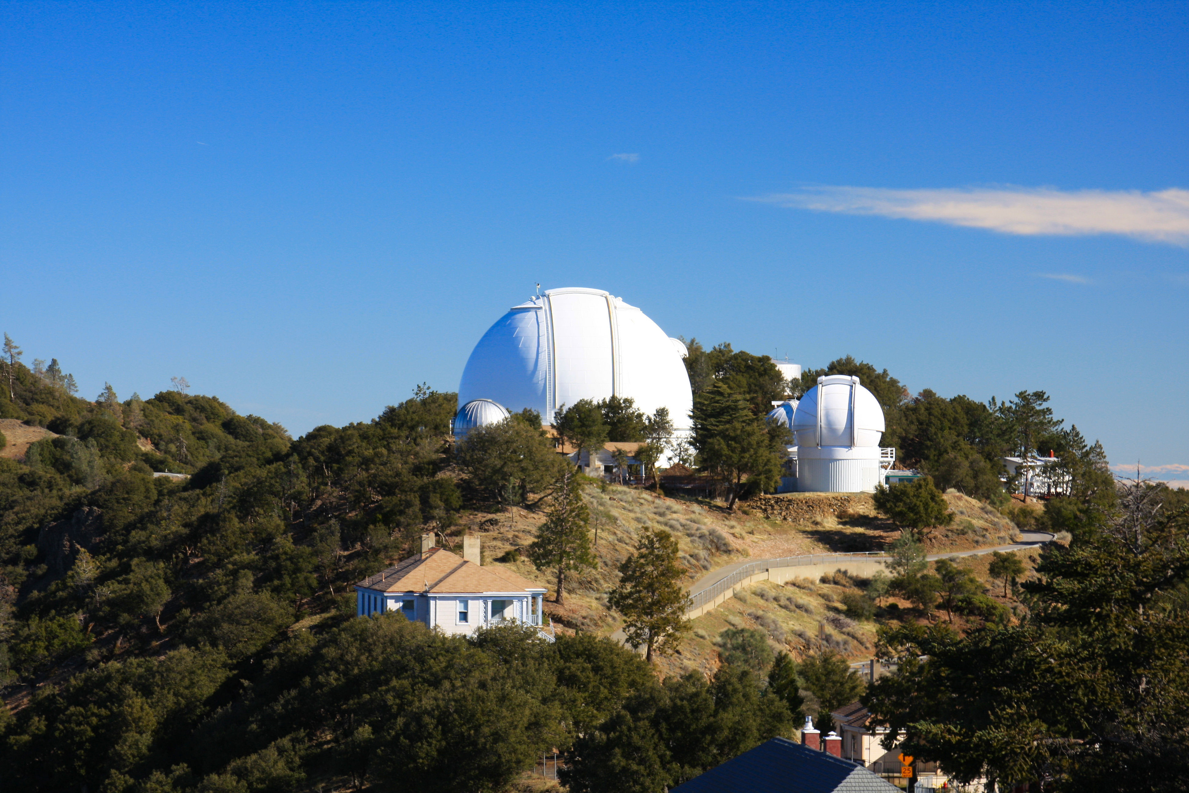 Lick Observatory - view of Shane Telescope on Mount Hamilton